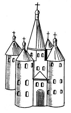 Church Saint_Sophia_Polacak